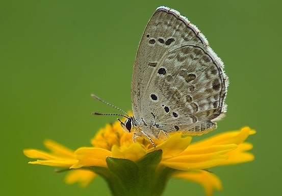 By Dhaval Momaya during August 2007 at Maredumilli, Rajahmundry, Andhra Pradesh.